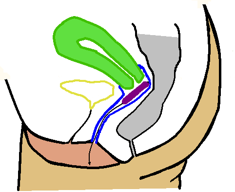 A picture showing a tampon in the vagina.